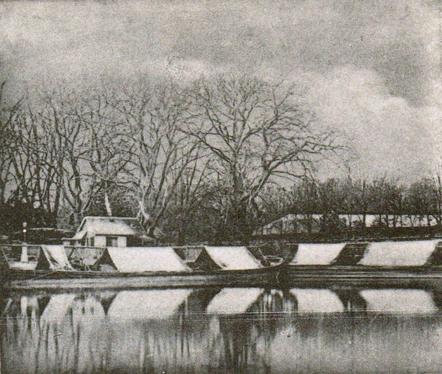 The gare d'eau (en: water station) in 1900's, located near the old center of Besançon, France.